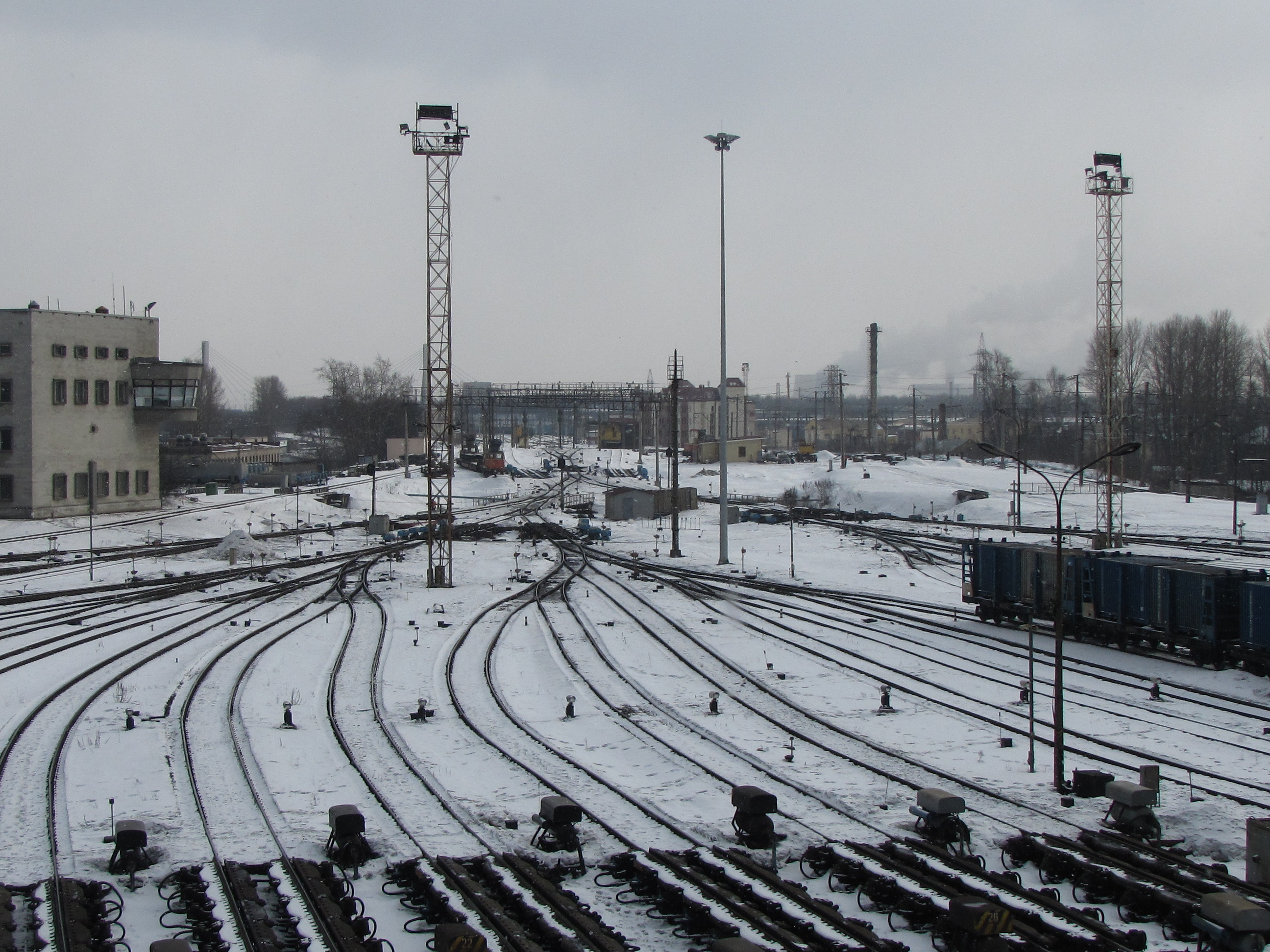 Nevsky District, St Petersburg, Russia (Sortirovka)